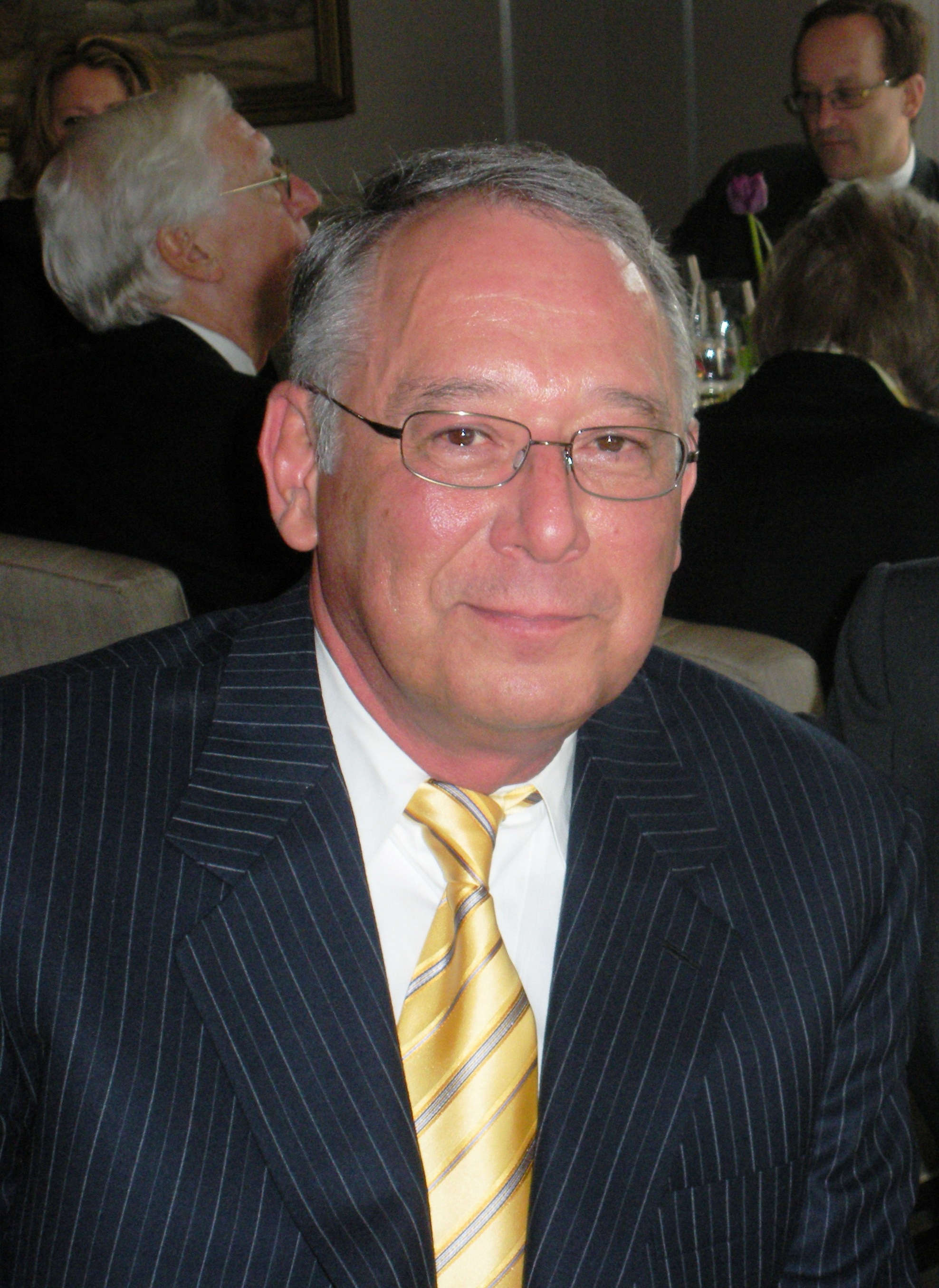 This is a photographic portrait of Thomas Spray, MD.